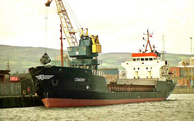 The "Cowdray" at Belfast. The "Cowdray" discharging a cargo of coal at the Abercorn Basin. She was formerly the "Ballygrainey" 565882 in the fleet of John Kelly Limited. Kelly's fleet was amalgamated with that of Stephenson Clarke Shipping Limited in 1990. The latter's naming policy was adopted marking the end of 139 years of "Kelly's coal boats".